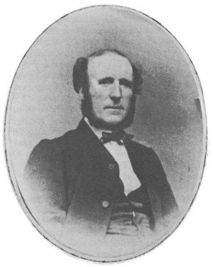 From in the public domain